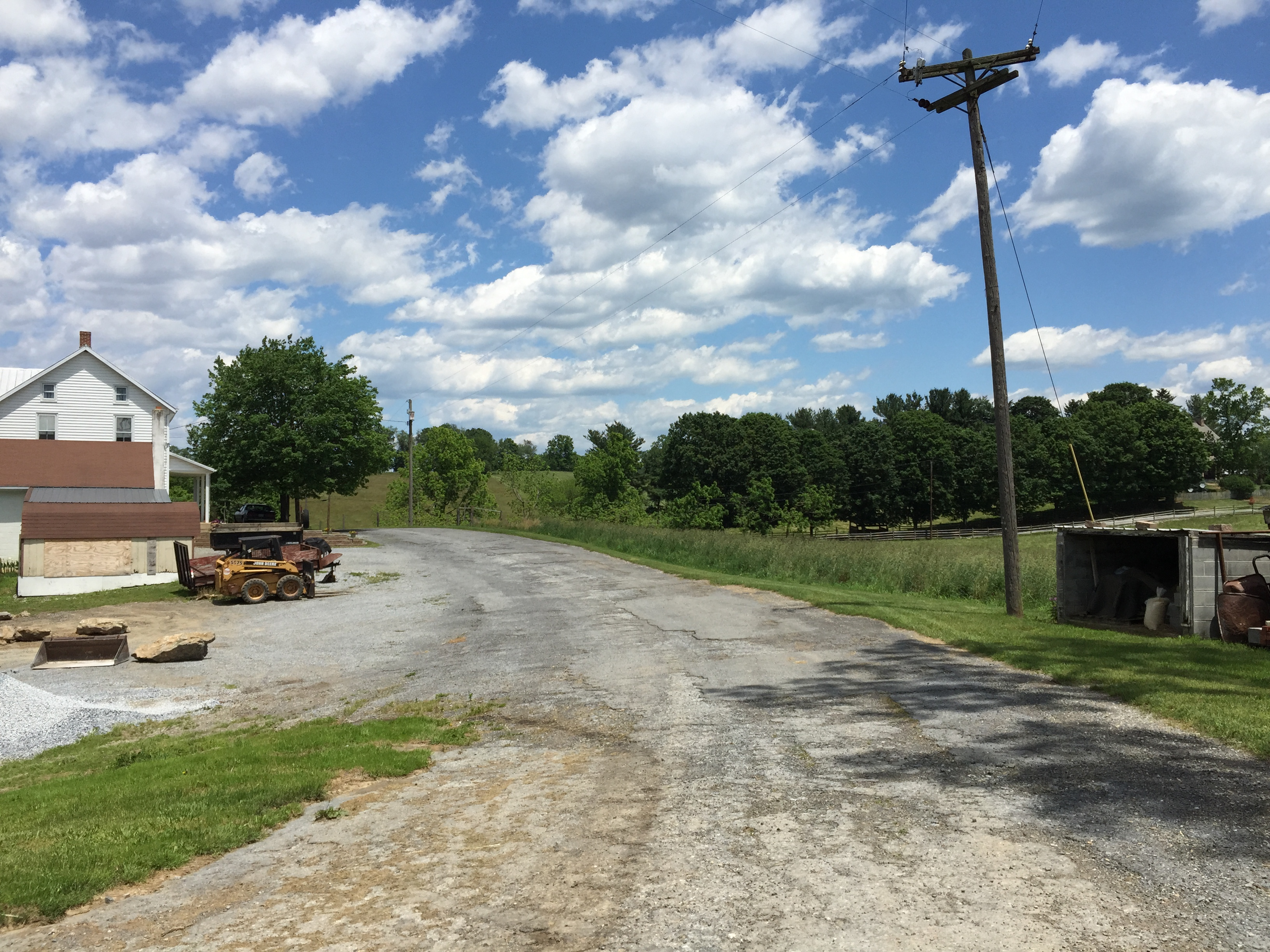 View north at the south end of Maryland State Route 805 (Old Leitersburg Pike) in Rocky Forge, Washington County, Maryland